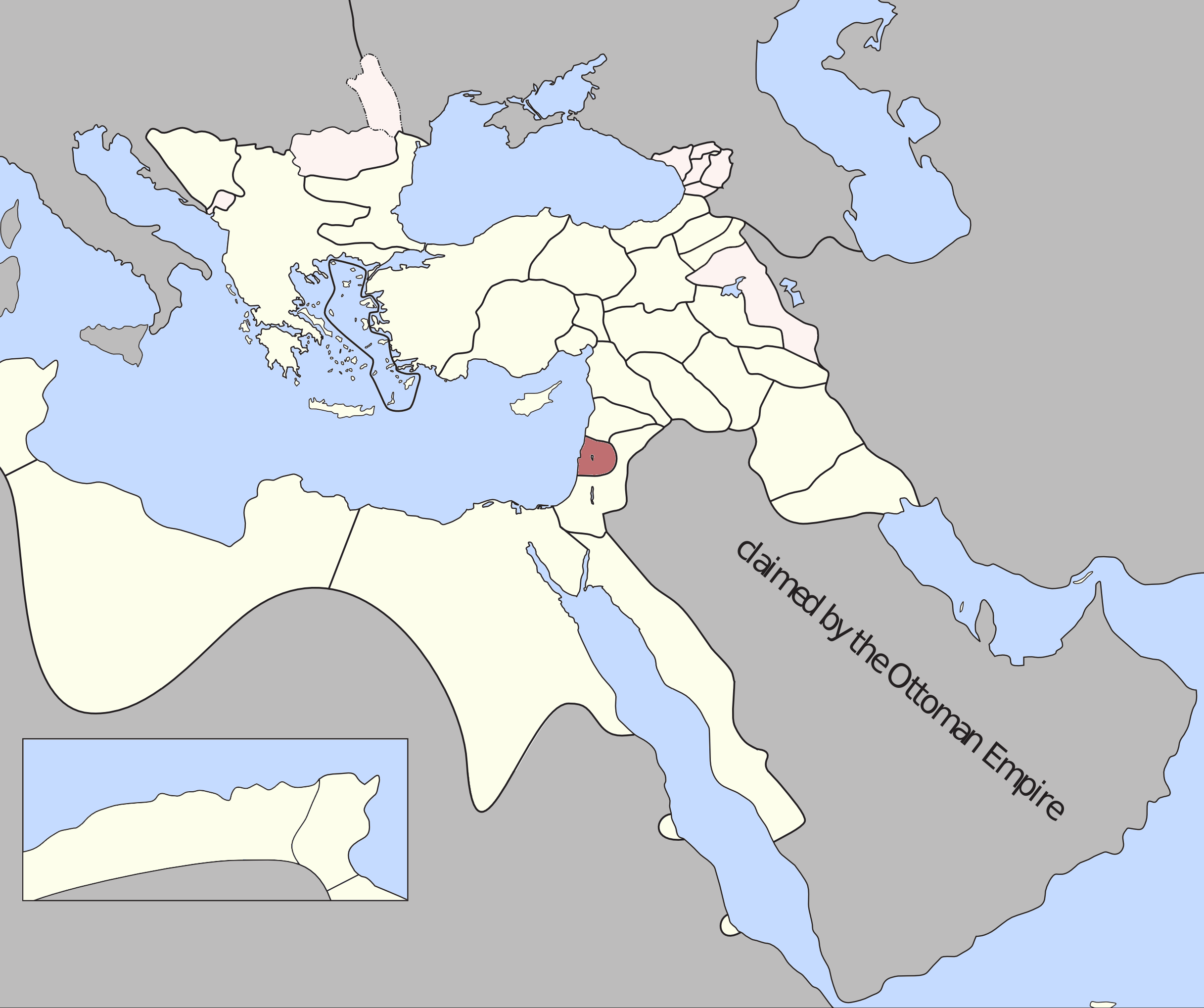 Category:Eyalet of Sidon, Ottoman Empire (1795). Source: A Brief History of the Late Ottoman Empire at Google Books By M. Sukru Hanioglu, Figure 1